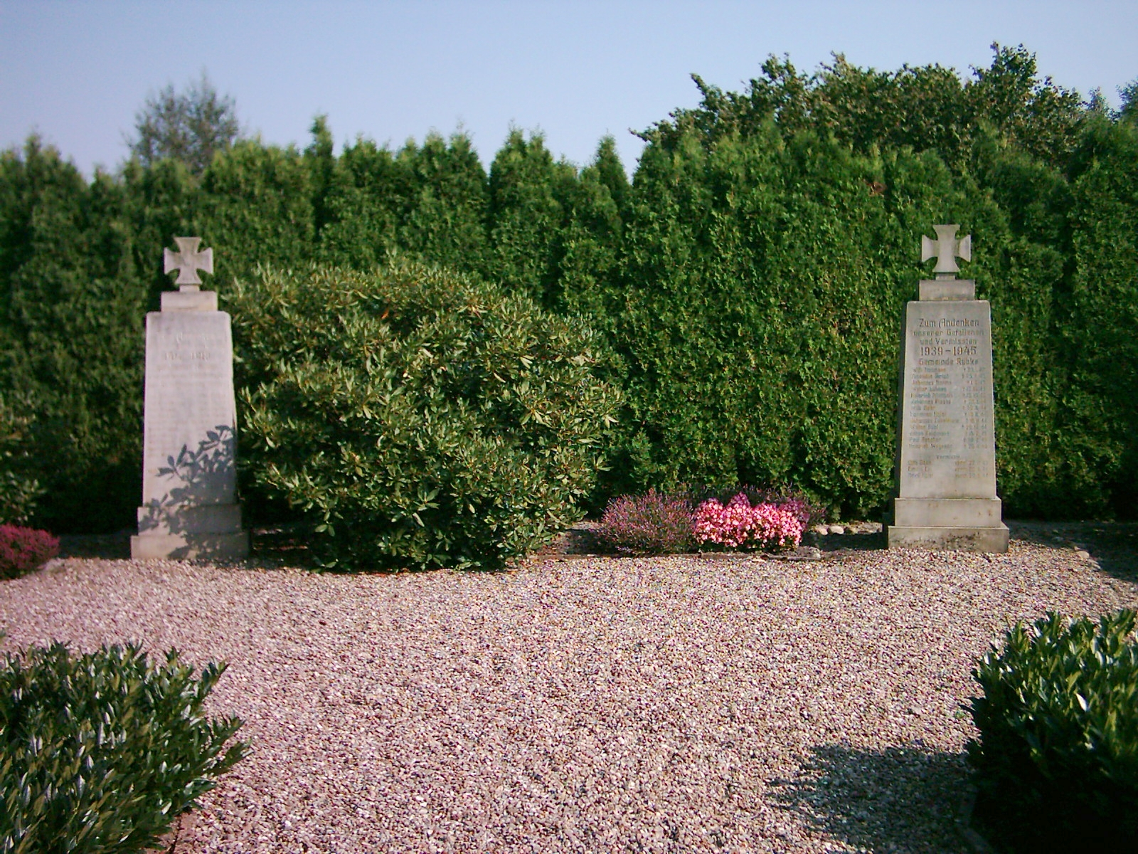 World war I and II memorial in Rübke, Lower Saxony, Germany.